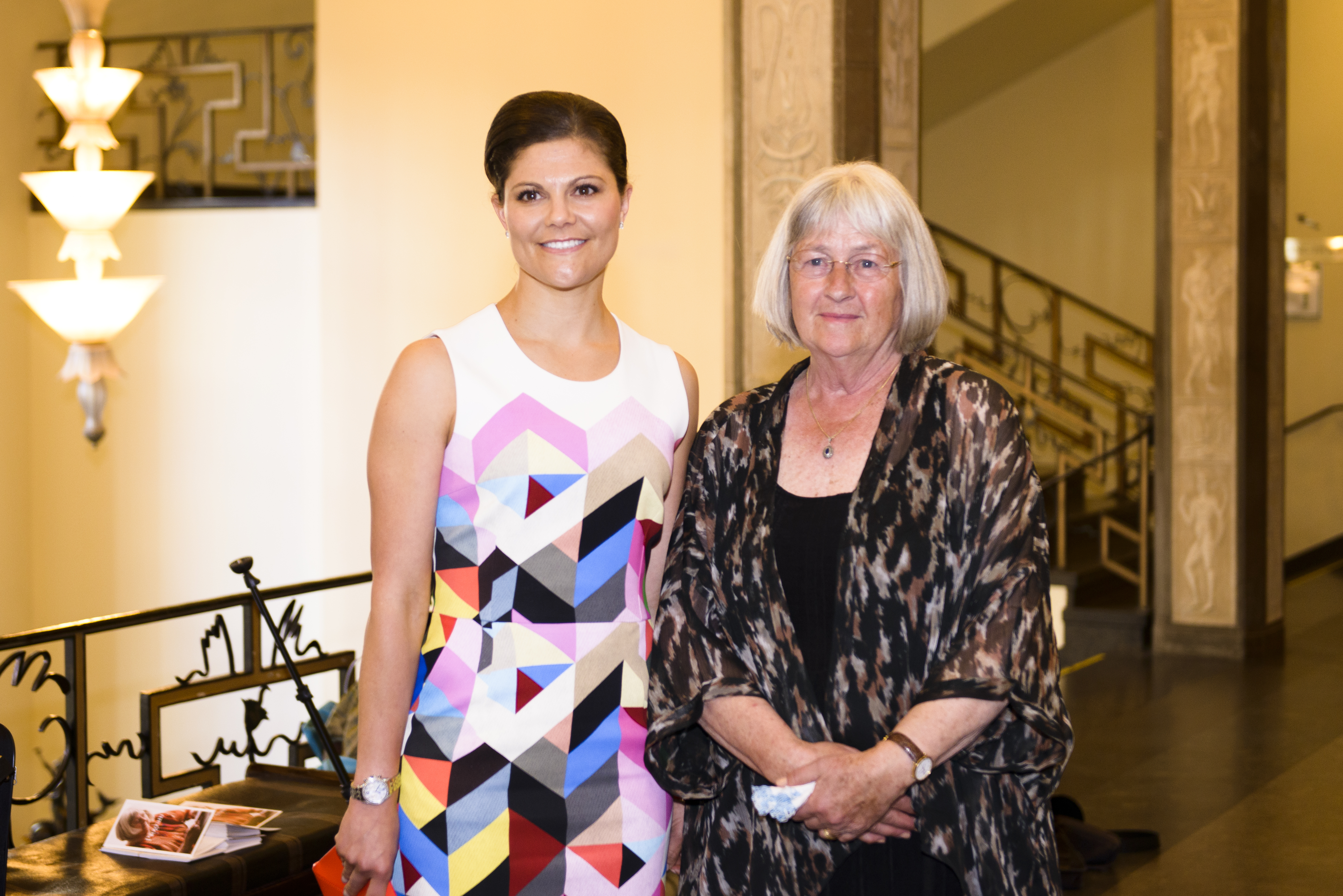 Crown Princess Victoria of Sweden and author Barbro Lindgren at the 2014 Astrid Lindgren Memorial Award presentation.